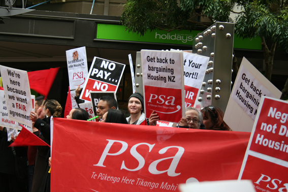 PSA members take part in a rally during a dispute with Housing New Zealand